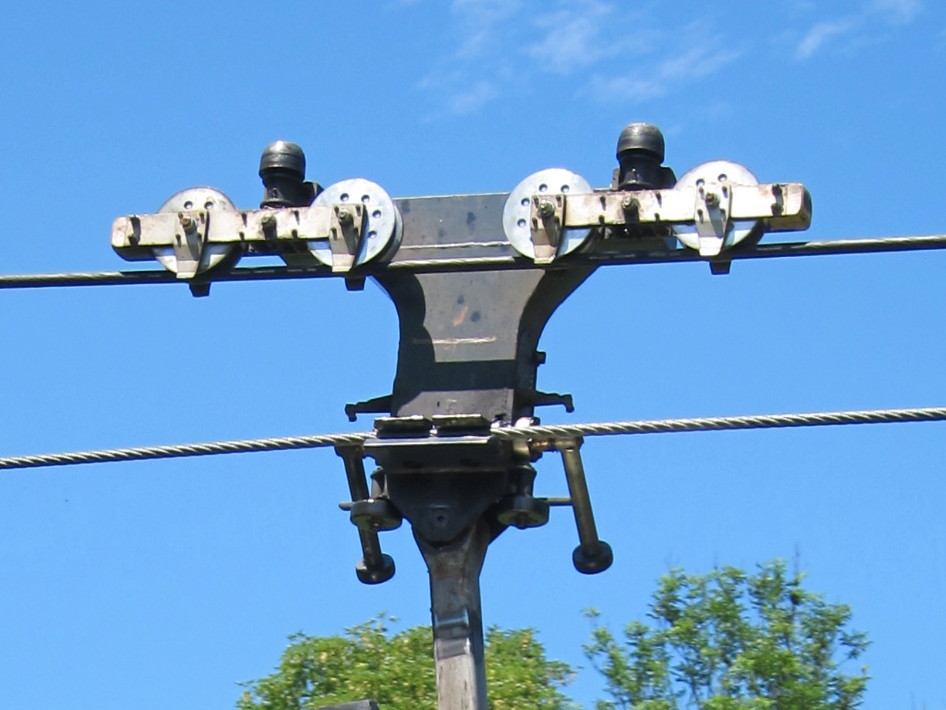 Brauneck Cableway: carriage, detachable grip and hanger